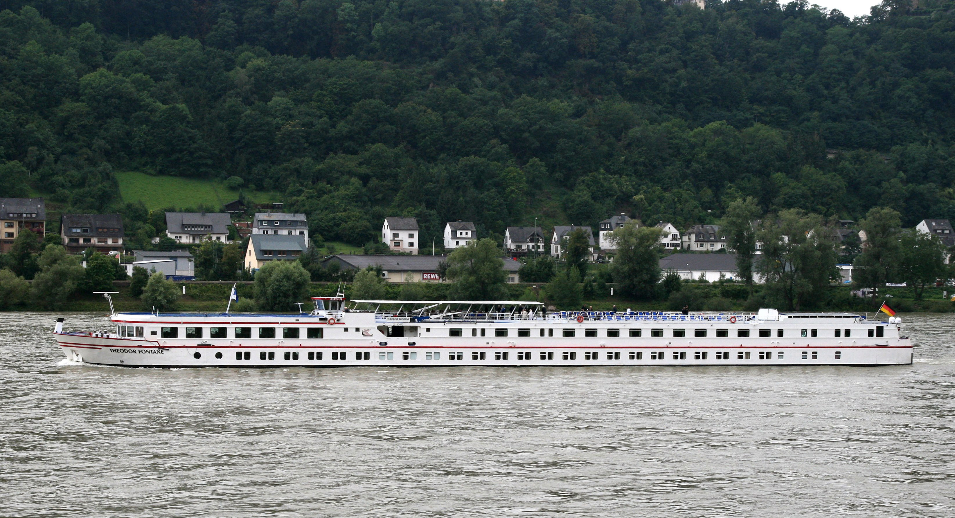 River cruise ship Theodor Fontane in Wiesbaden